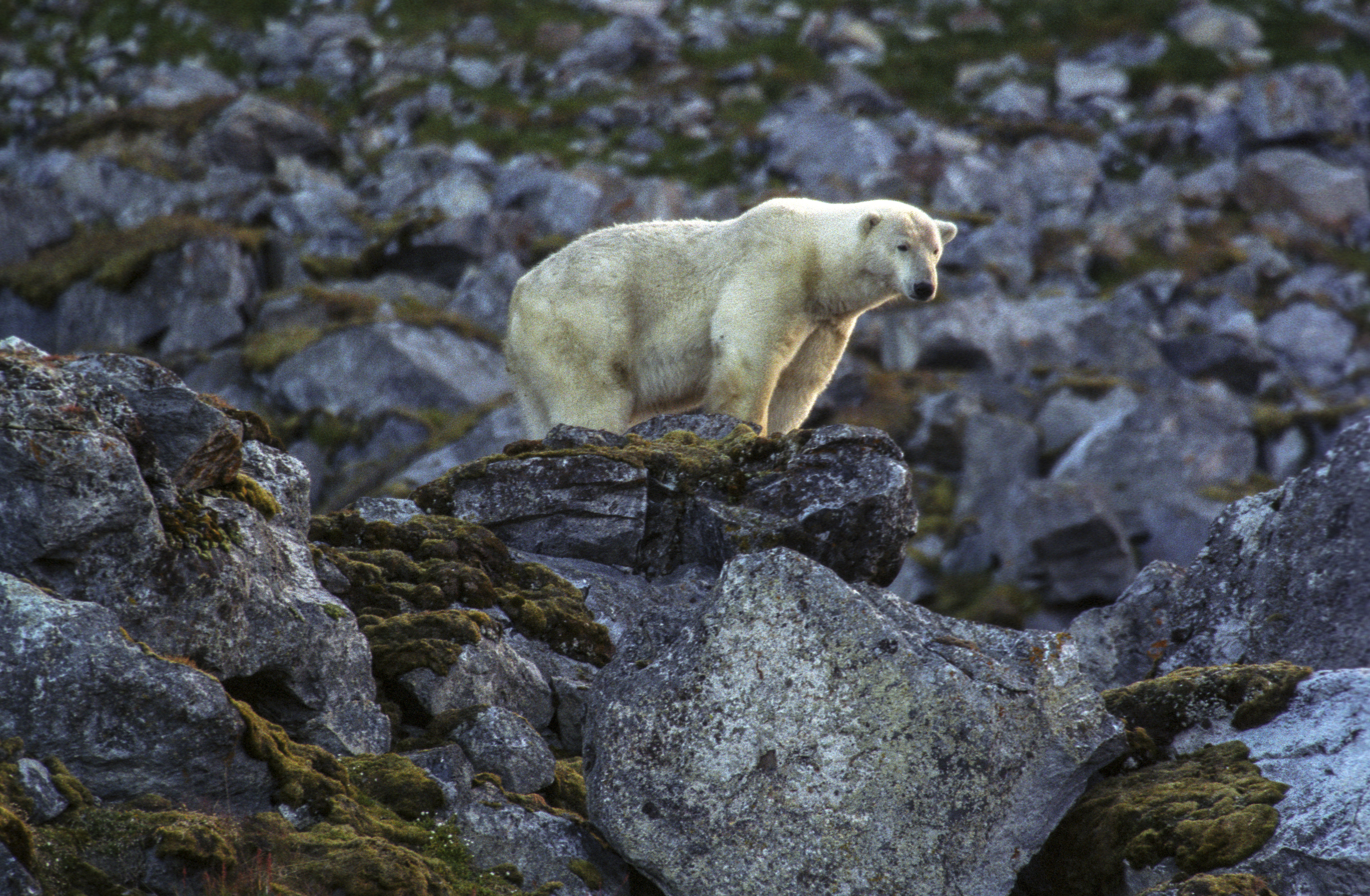 Spitsbergen, Lonfjord Peninsula, Fanshaww Cape, polar bear